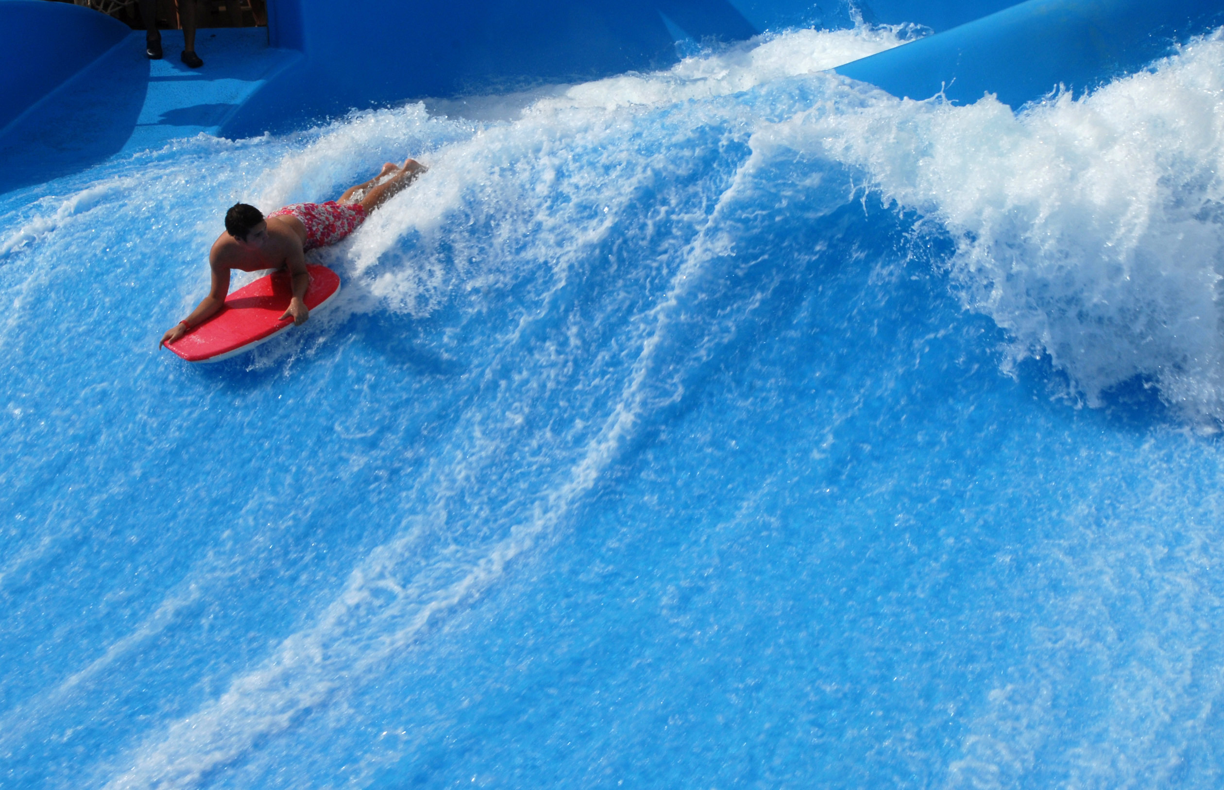 FIFTH FLEET, Area of Operation (Dec. 27, 2007) A Sailor attached to the Nimitz-class aircraft carrier USS Harry S. Truman (CVN 75) surfs an artificial wave pool during a USO water park tour during a port visit in the Middle East. Truman and embarked Carrier Air Wing (CVW) 3 are on a regularly scheduled deployment in support of maritime security operations. U.S. Navy photo by Mass Communication Specialist Seaman Apprentice Matthew Bookwalter (Released)